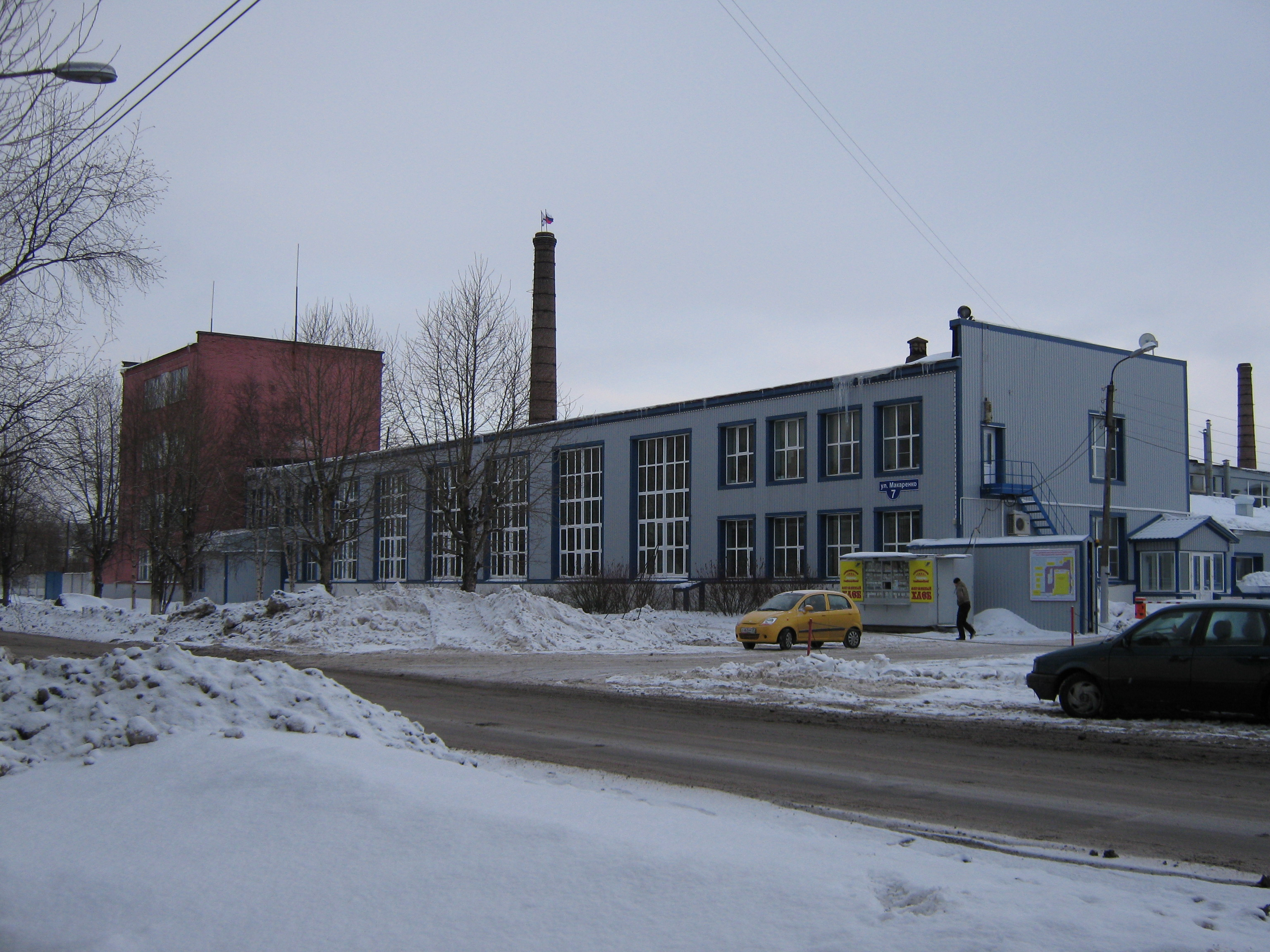 Severodvinsk bakery. March, 2010.